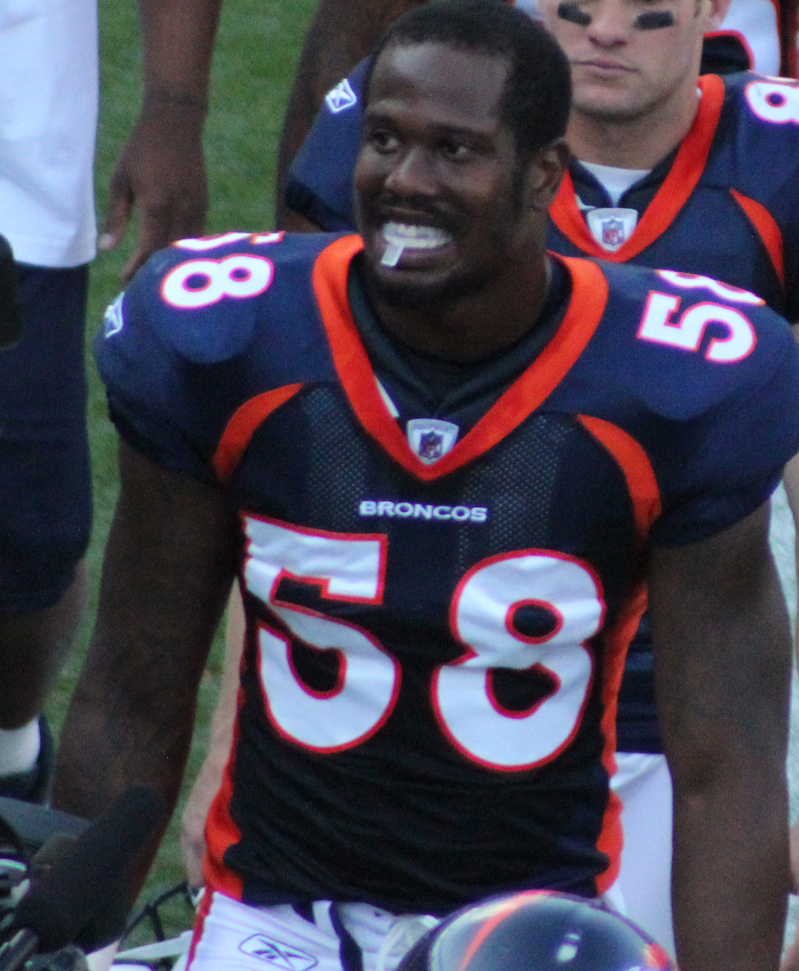 Von Miller, a National Football League player.